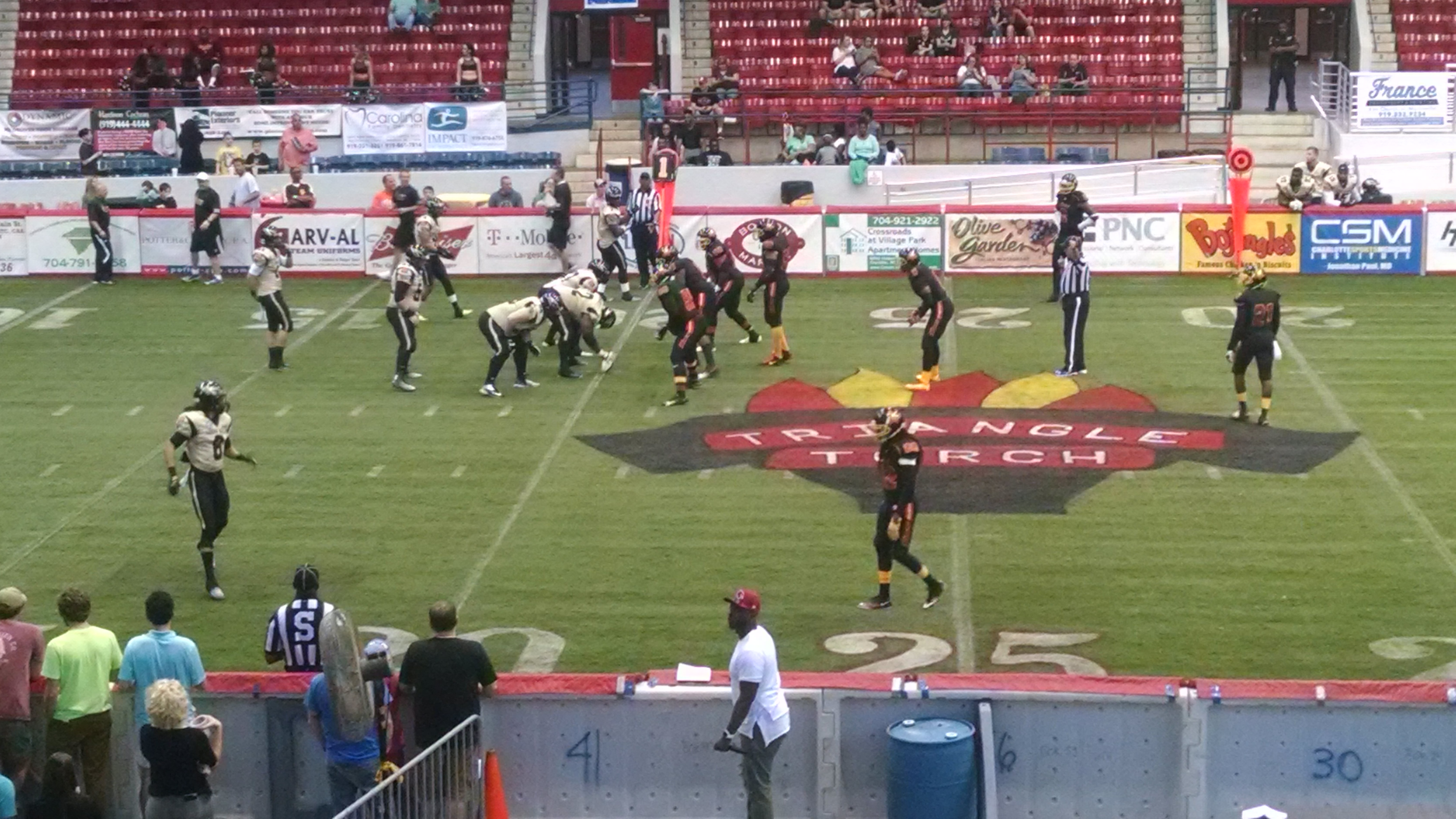 Triangle Thunder vs. Lehigh Valley Steelhawks at Dorton Arena, Raleigh NC 03-25-2016